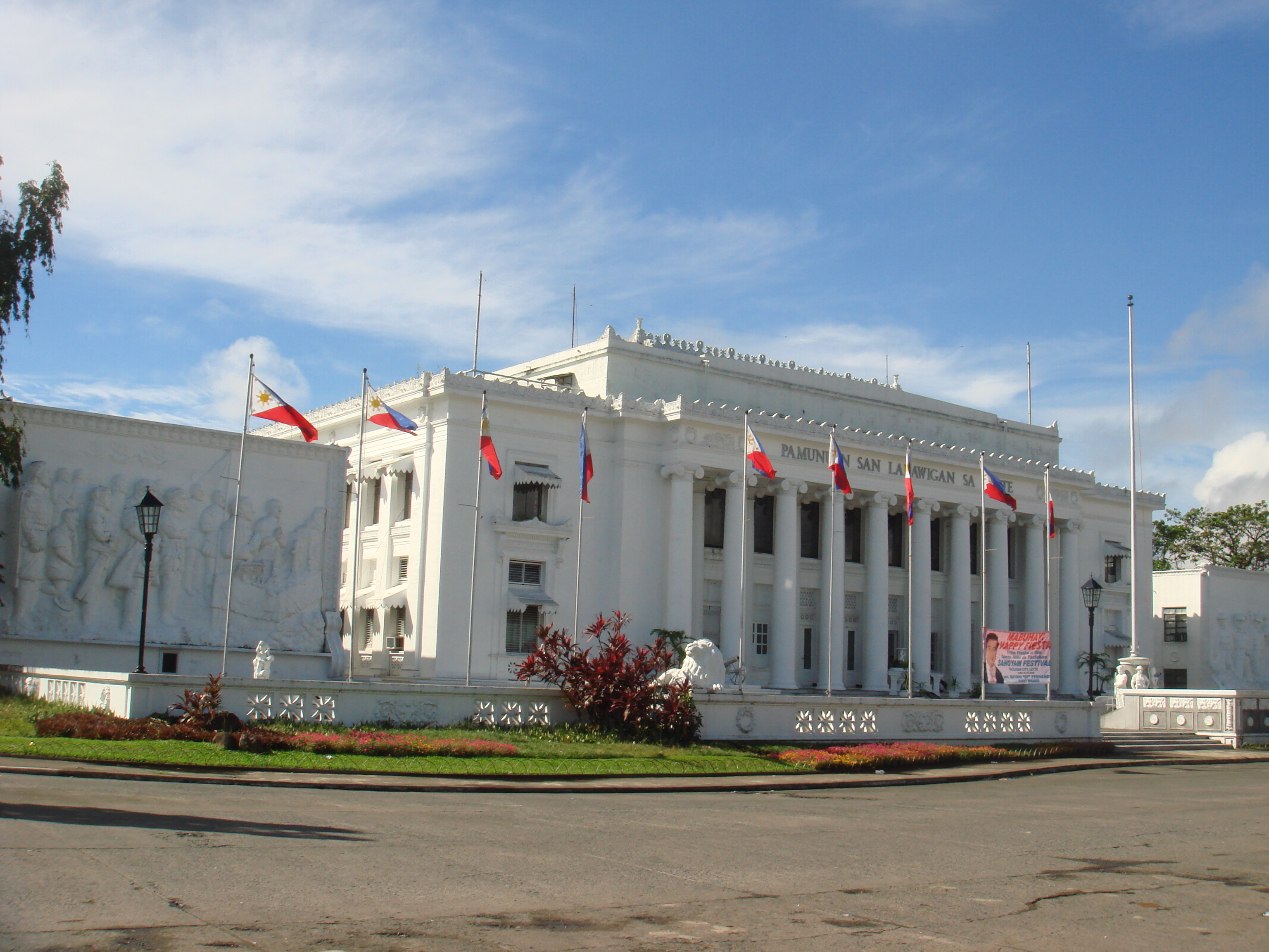 Capitol of the Province of Leyte, Philippines. The capitol is located at Tacloban City